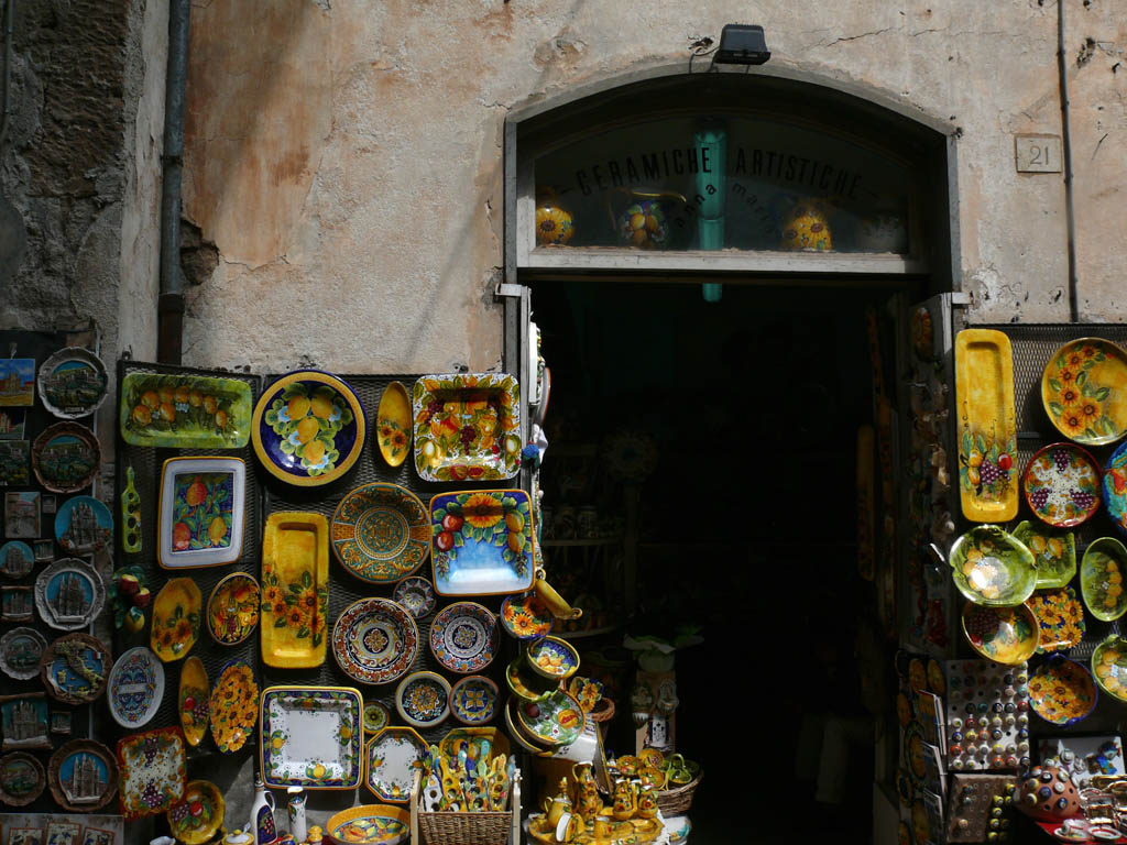 Orvieto: souvenir shop